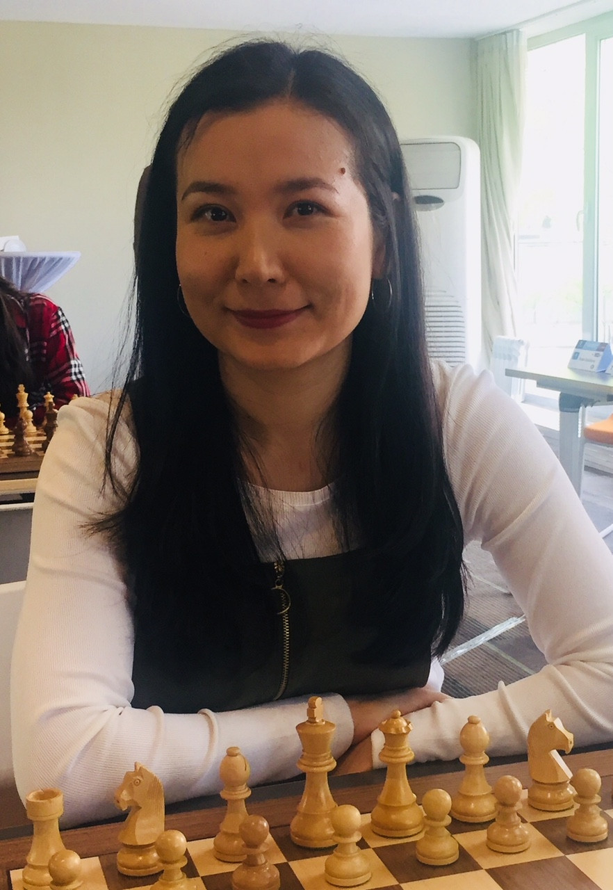 Dauletova Gulmira - qazaq chess player